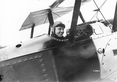 Squadron-Commander Raymond Collishaw in Sopwith F1 Camel aircraft, Allonville, France, 1918 (National Archives of Canada, PA-2788).